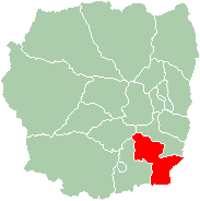 Map of former Antananarivo Province showing the location of Antanifotsy (red). (Description copied from the caption of this file at [1])